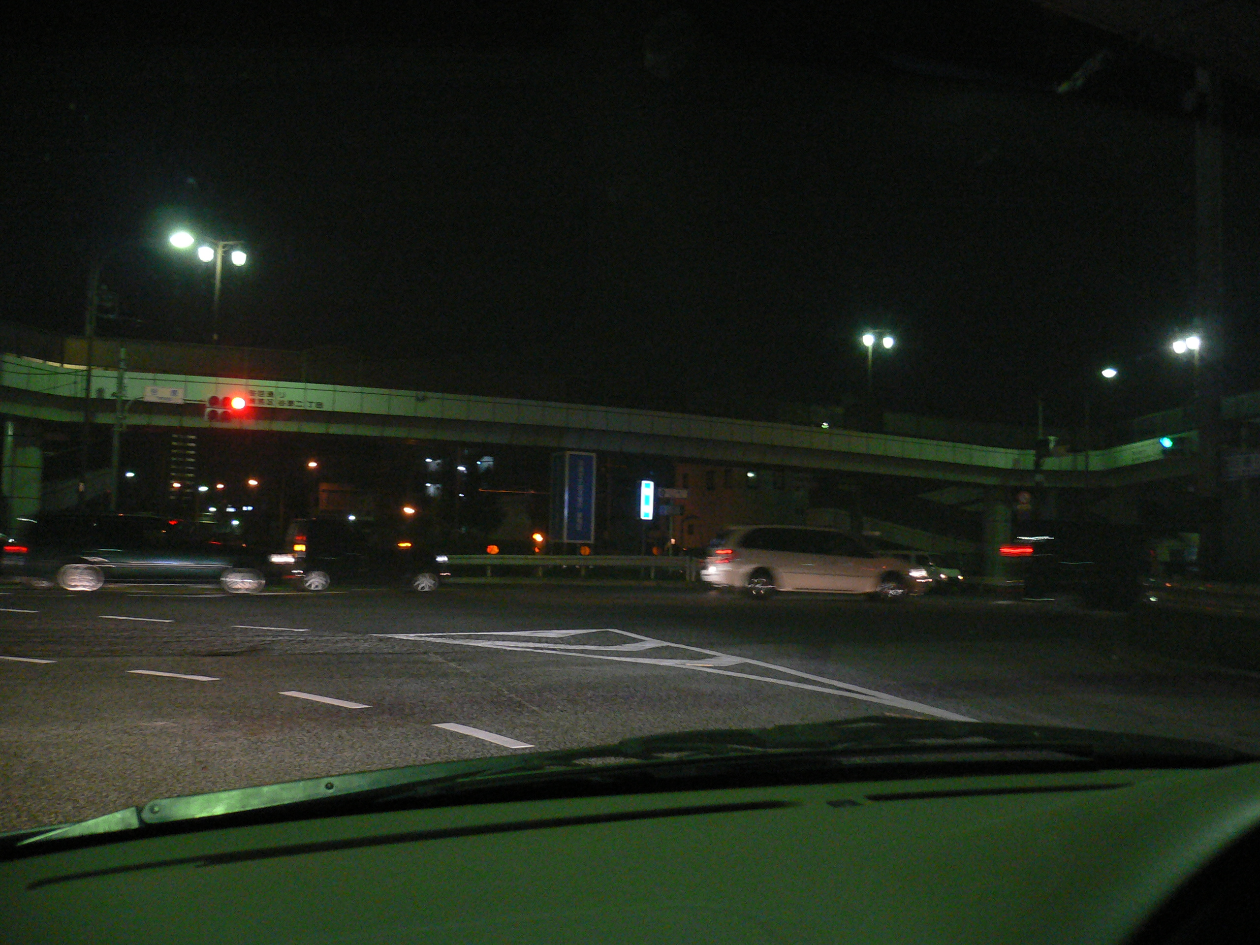 Yahara crossing (笹目通り・目白通り・富士街道), Nerima W, Tokyo M.